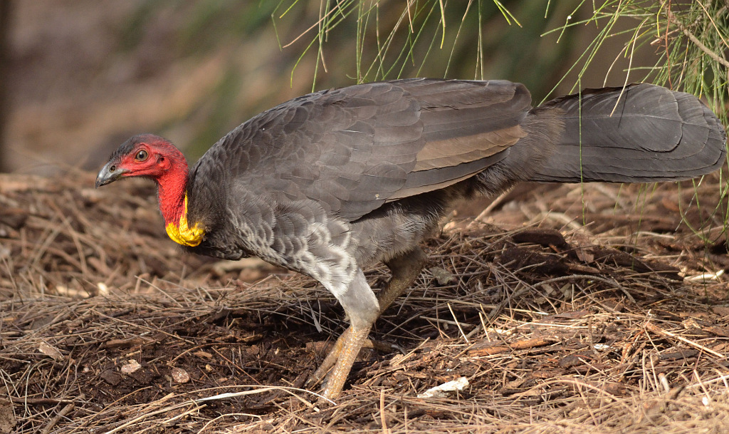 A Australian Brushturkey in Brisbane, Queensland, Australia. It is standing on a nest mound.